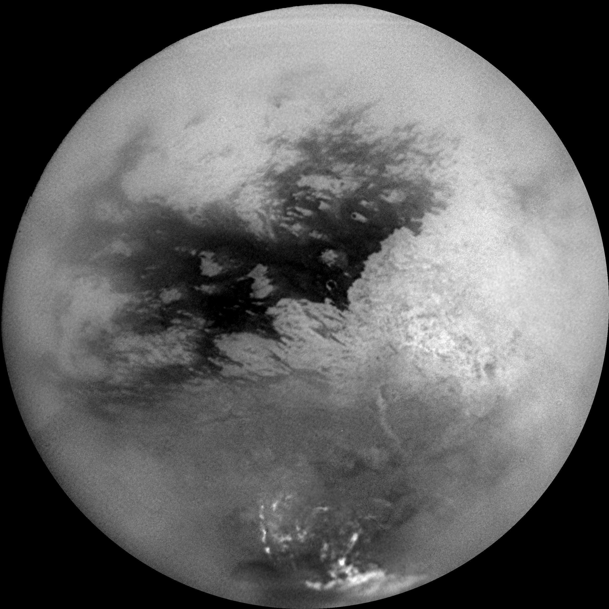 A mosaic of nine processed images acquired during Cassini's first very close flyby of Saturn's moon Titan on Oct. 26, 2004, constitutes the most detailed full-disc view of the mysterious moon. The view is centered on 15 degrees South latitude, and 156 degrees West longitude. Brightness variations across the surface and bright clouds near the south pole are easily seen. The images that comprise the mosaic have been processed to reduce the effects of the atmosphere and to sharpen surface features. The mosaic has been trimmed to show only the illuminated surface and not the atmosphere above the edge of the moon. The Sun was behind Cassini so nearly the full disc is illuminated. Pixels scales of the composite images vary from 2 to 4 kilometers per pixel (1.2 to 2.5 miles per pixel). Surface features are best seen near the center of the disc, where the spacecraft is looking directly downwards; the contrast becomes progressively lower and surface features become fuzzier towards the outside, where the spacecraft is peering through haze, a circumstance that washes out surface features. The brighter region on the right side and equatorial region is named Xanadu Regio. Scientists are actively debating what processes may have created the bizarre surface brightness patterns seen here. The images hint at a young surface with no obvious craters. However, the exact nature of that activity, whether tectonic, wind-blown, fluvial, marine, or volcanic is still to be determined. The images comprising this mosaic were acquired from distances ranging from 650,000 kilometers (400,000 miles) to 300,000 kilometers (200,000 miles).